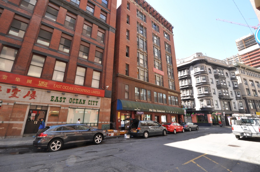 Beach Street at Knapp Street. The three left-most buildings are part of the Beach-Knapp Historic District (and the only ones on Beach Street that are).